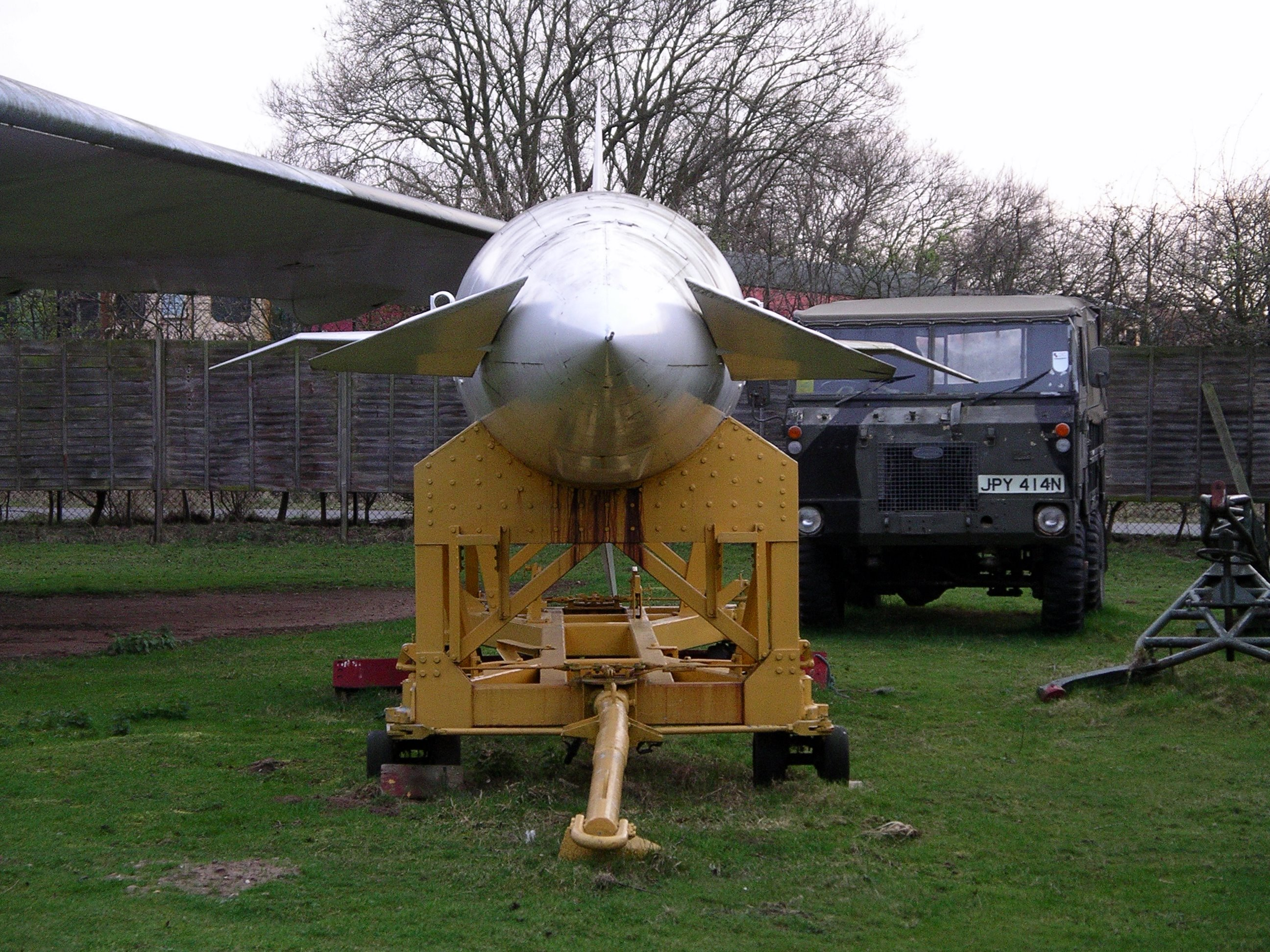 Photo taken on 17 March 2007 of the Avro Blue Steel nuclear missile at the Midland Air Museum, Warwickshire, England.